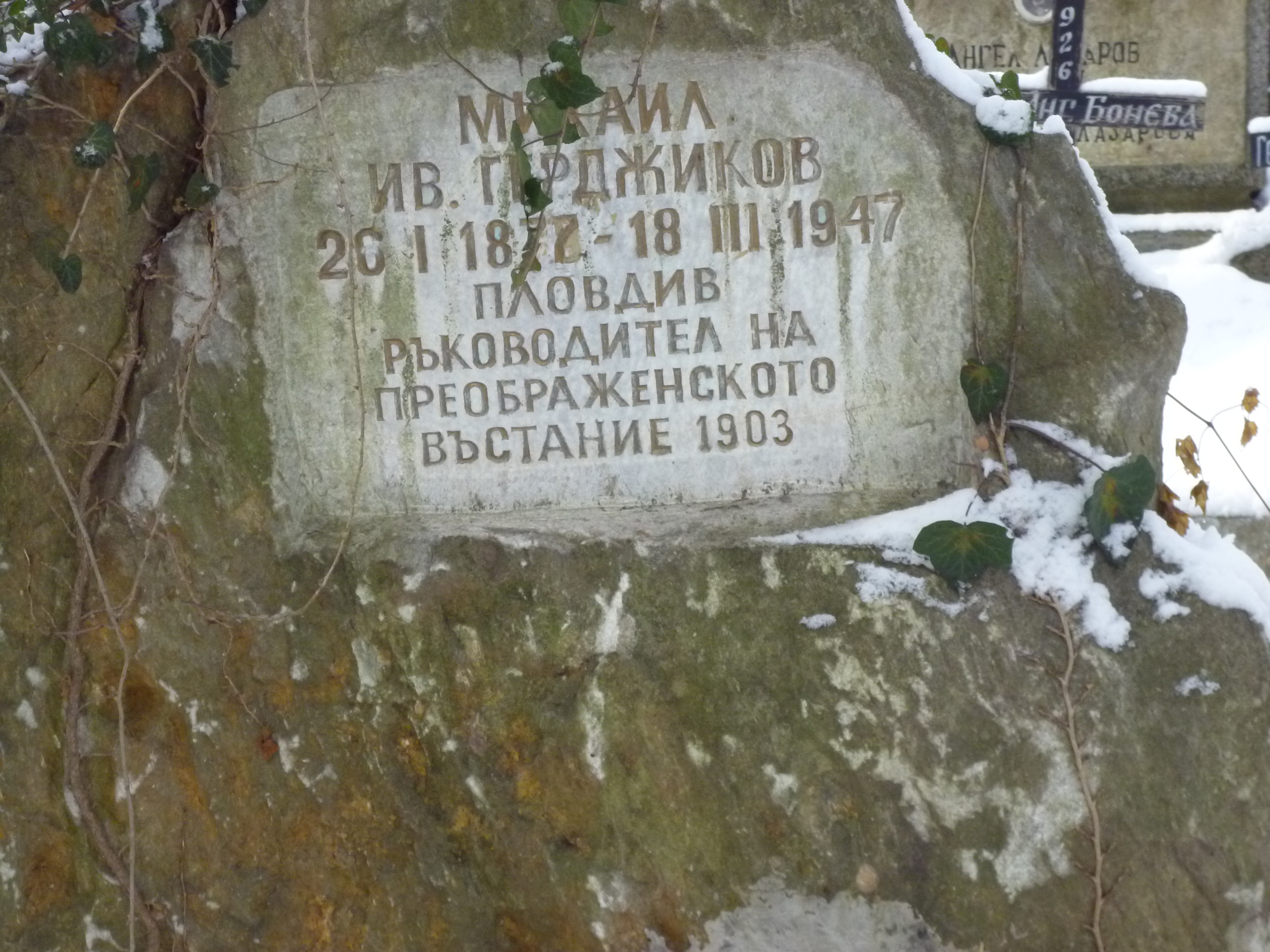 Mihail Gerdzhikov grave in Central Sofia grave park